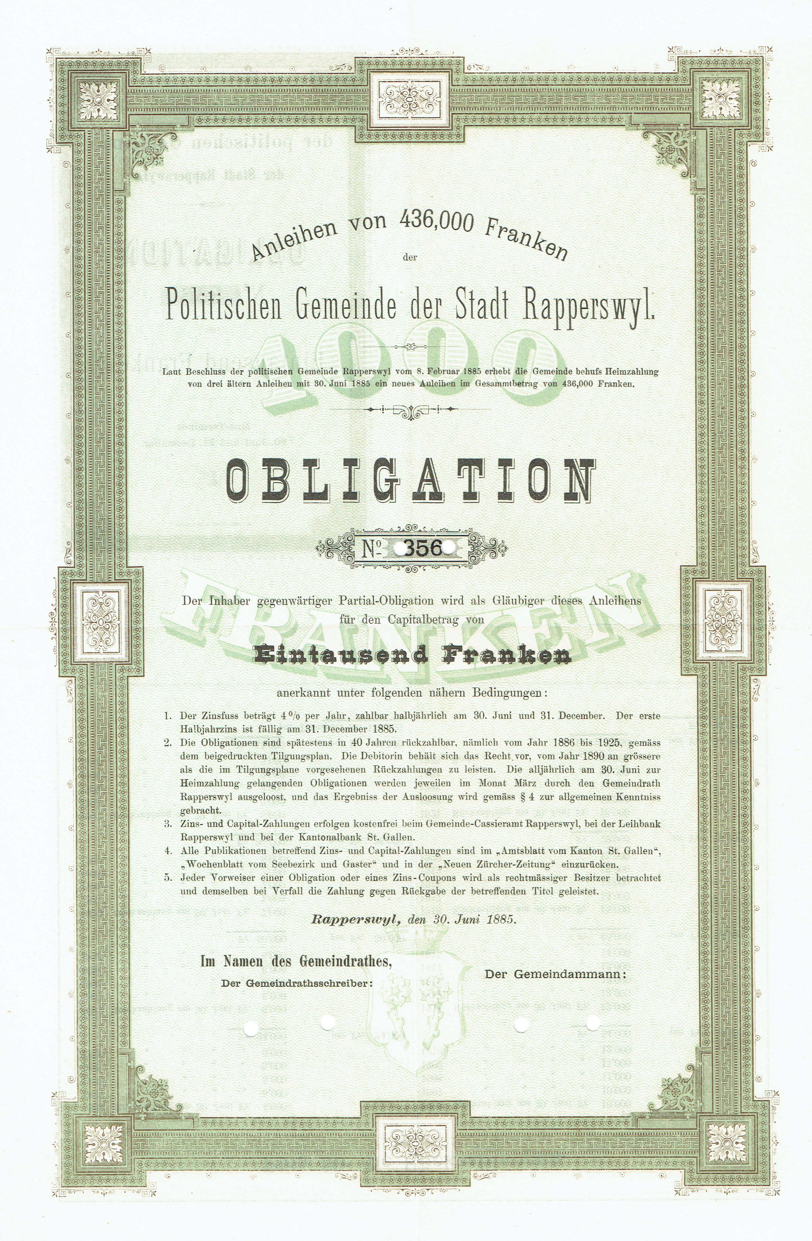 Bond of the City of Rapperswyl, issued 30. June 1885